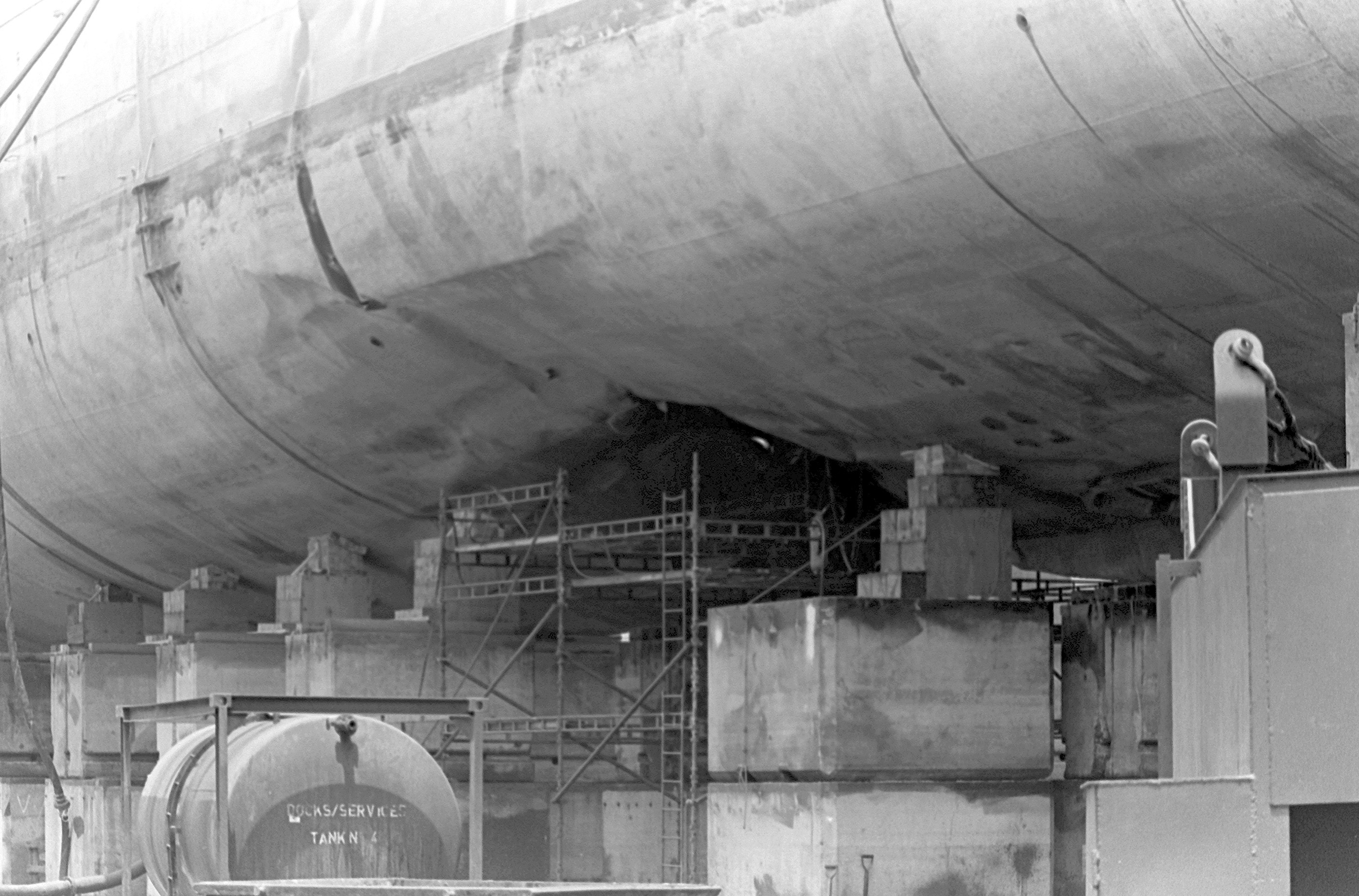 A view of the hole in the hull of the guided missile frigate USS SAMUEL B. ROBERTS (FFG-58) sustained when the ship struck a mine while on patrol in the Persian Gulf on April 14, 1988. The ship is in dry dock undergoing temporary repairs.